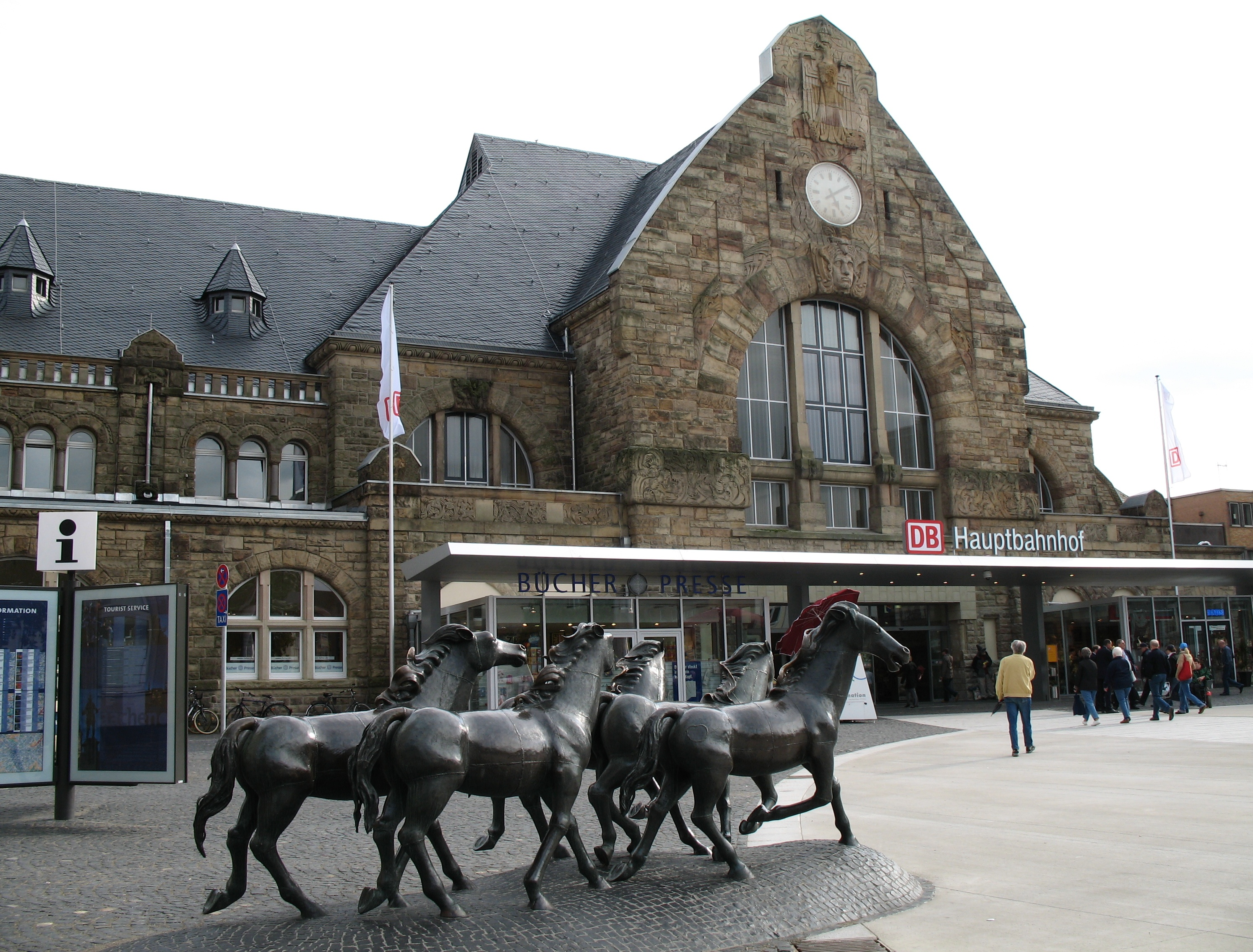 Renovated station square of Aachen central station; statue of horses by Bonifatius Stirnberg